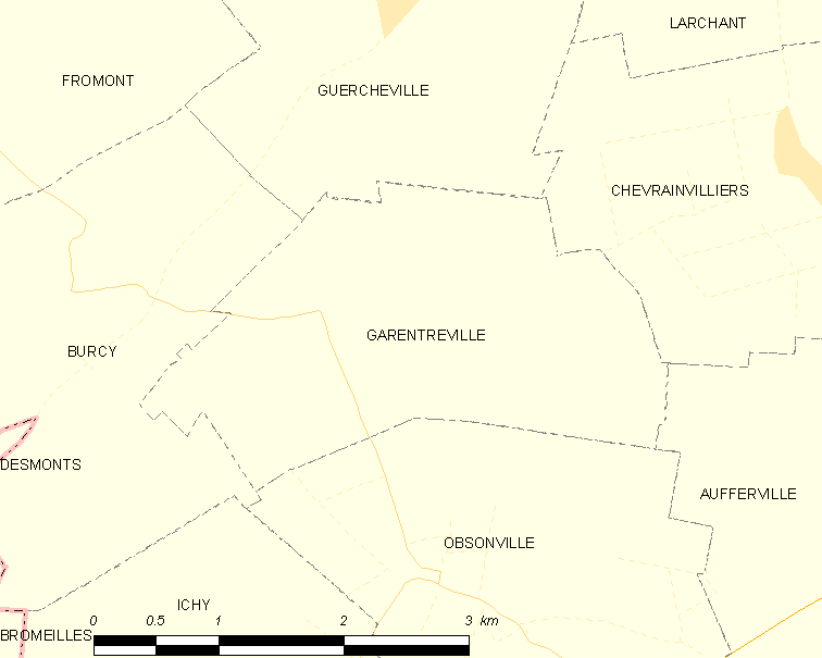 Map of French municipality Garentreville